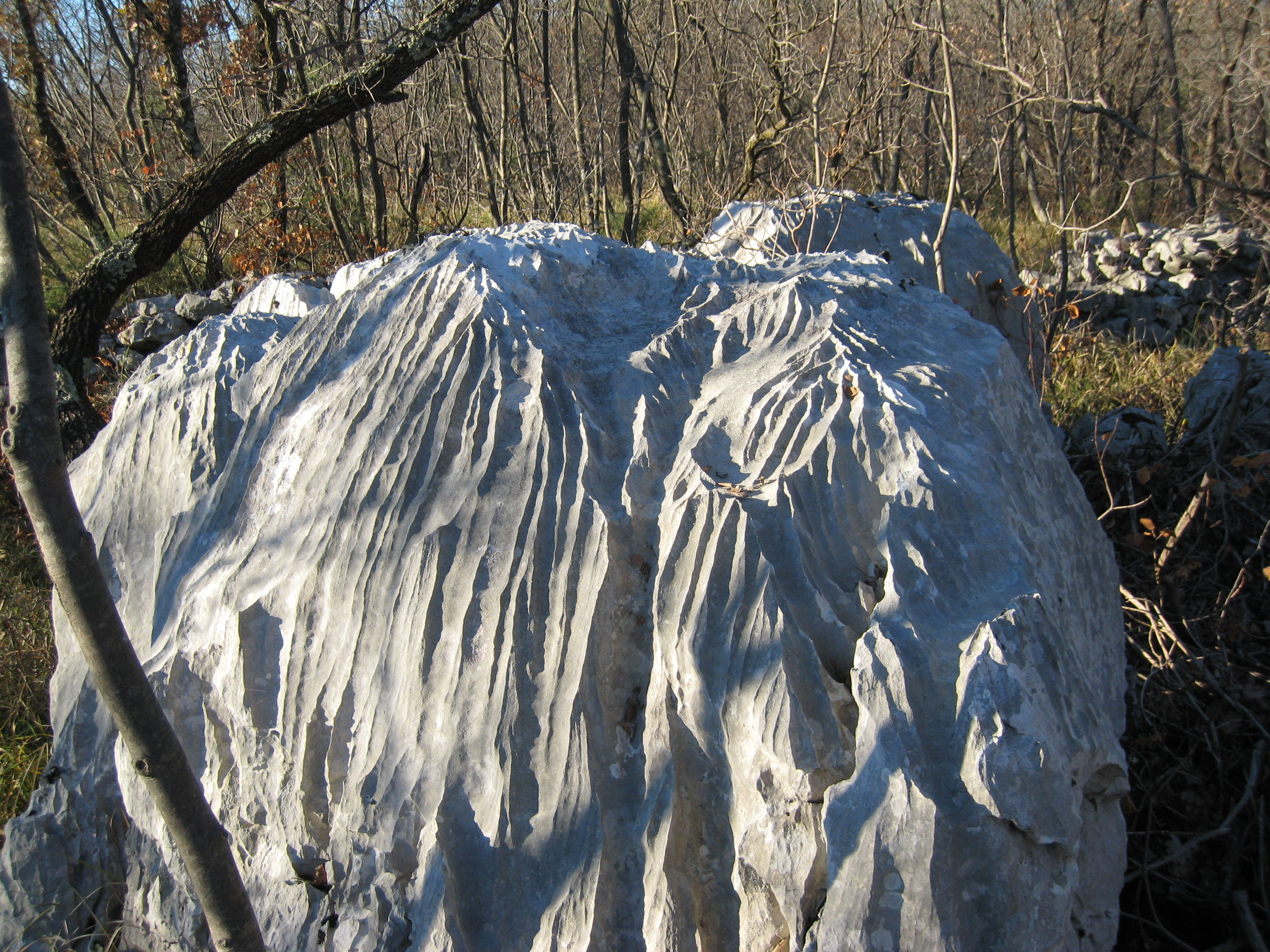 Italy - Trieste - Carsismo